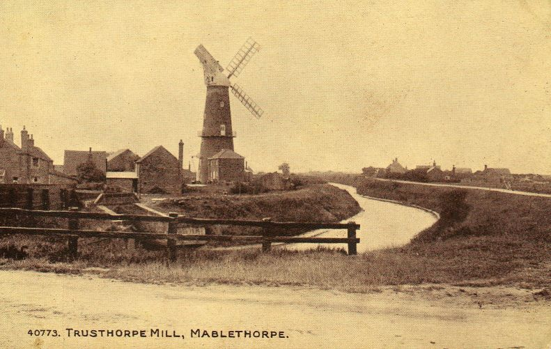 Trusthorpe Mill near Mablethorpe, Lincolnshire. Image from a postcard by The Photochrom Co. Ltd., London and Tunbridge Wells. Date pre 1918 as ½d postage inland is stated.